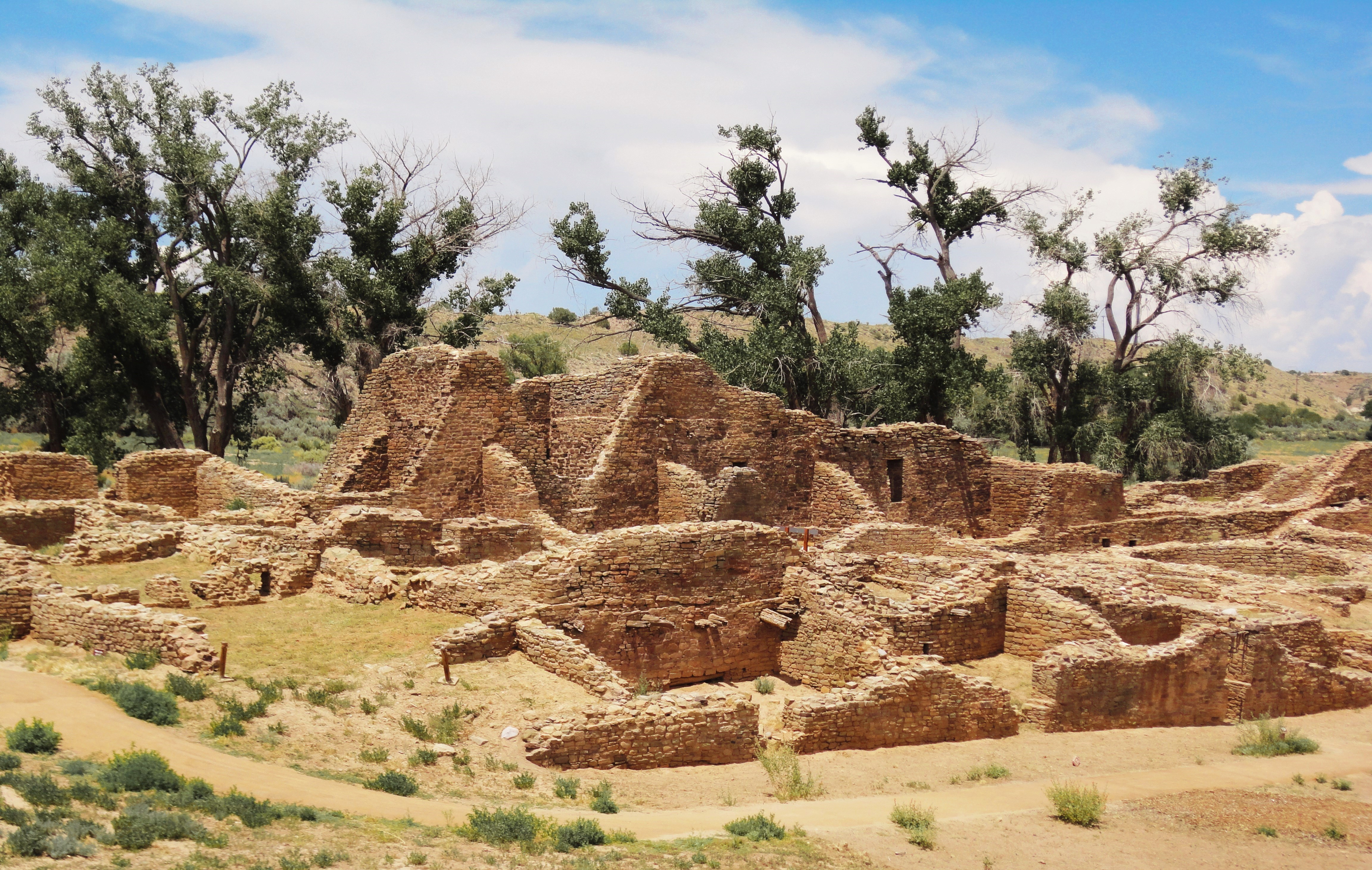 The central room block of Aztec Ruins National Monument